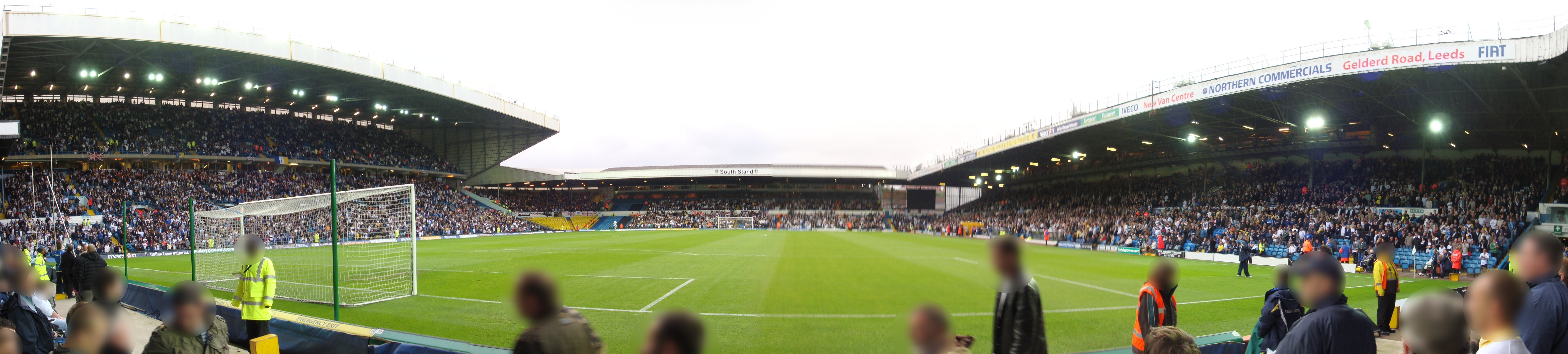 A panorama of Elland Road from the Revie Stand. Taken on the 17th of May 2009 (as recorded on Flickr, although this is unlikely as there was no game on this day. Most likely to have been taken on the 14th of May 2009, prematch v Milwall).